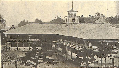 This was Kansho school in Takayama, Gifu, Japan. No other school was built earlier than this one in Hida area.